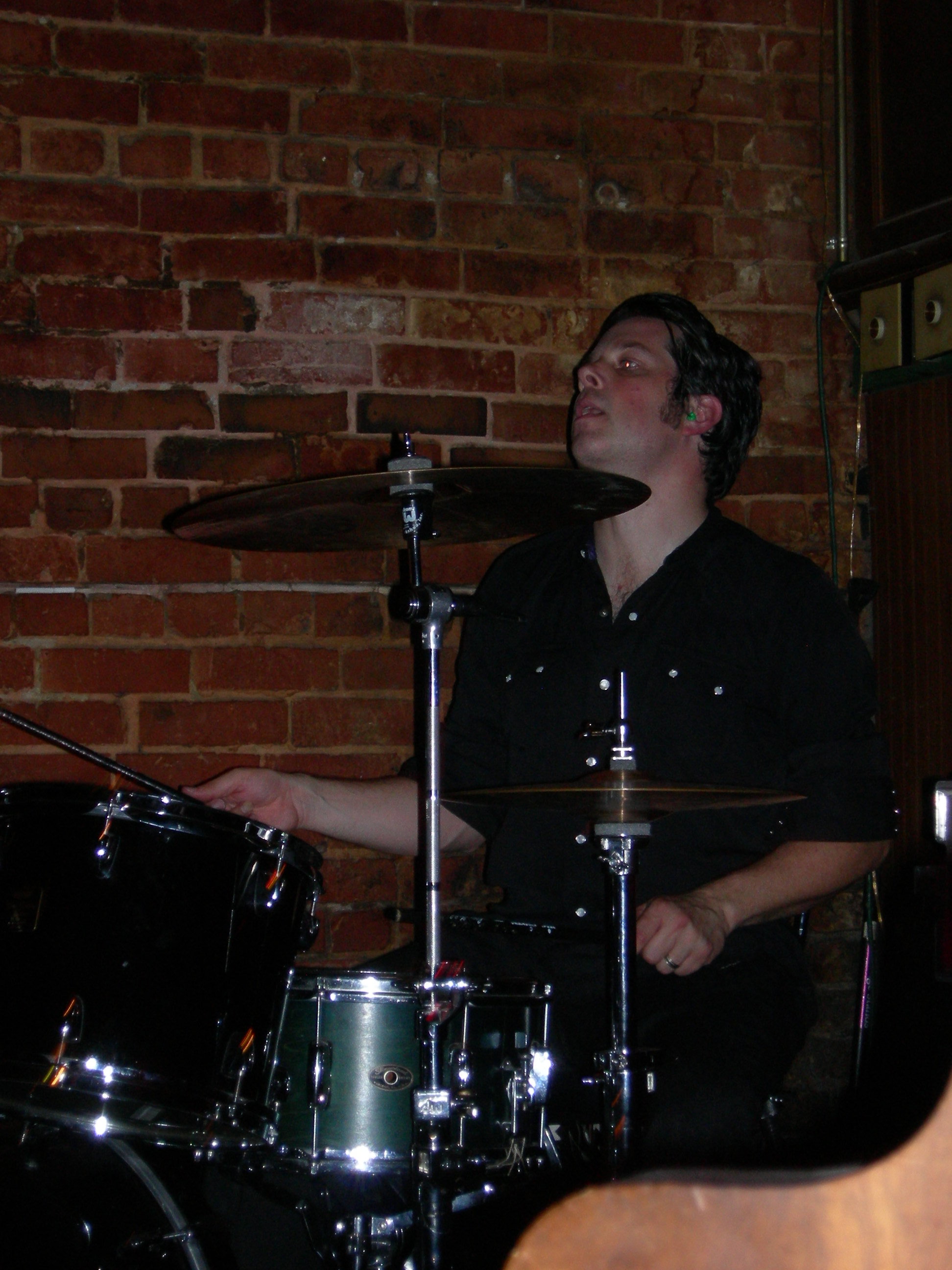 Mark Pickerel, ex-Screaming Trees, drumming with Seattle band The Tripwires, during Reverb Fest, at Conor Byrne bar on Ballard Avenue in Seattle, Washington.